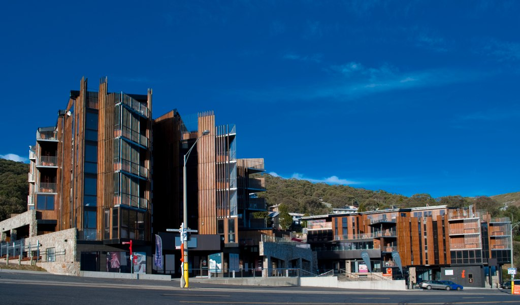 St Falls ski lodge, Falls Creek, Australia. Architect: Elenberg Fraser (2009).